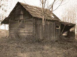 Humes ranch cabin, Washington, United States source is the Olympic National Park, website